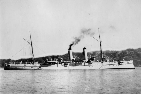 IJN despatch vessel MIYAKO at Maizuru Naval Base.